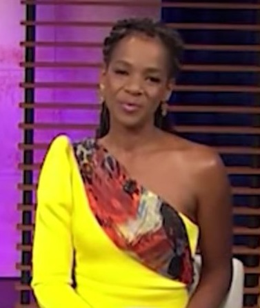 Kelsey Scott Talks Acting Journey & More